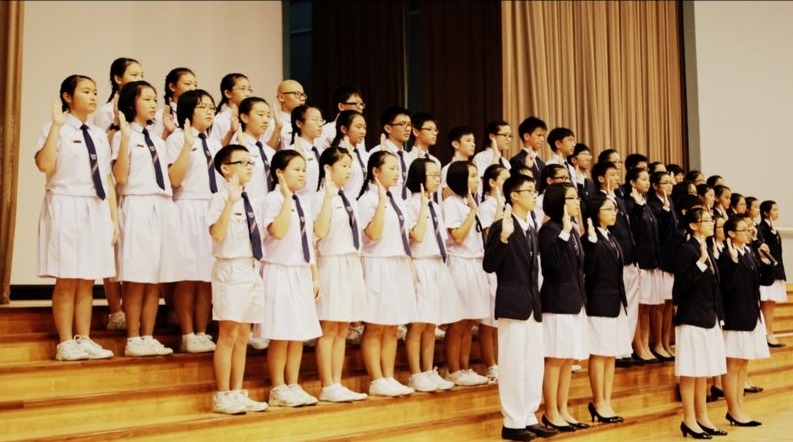 Swearing-in of the 20th Student Council of Nan Hua High School, Singapore, at the 2012 Student Council Investiture.